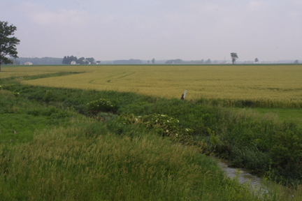 View from a ridge near Benton Ridge, OH which demarks the edge of the former Great Black Swamp. The ridge was formed at the southern shore of the ancient glacial Lake Maumee. In the distance, a completely flat expanse of agricultural land extends to the horizon. In the foreground a ditch used to drain the swamp is visible.